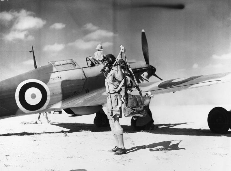 IWM caption : Flying Officer V C Woodward of 'B' Flight, No. 33 Squadron RAF, dons his parachute beside his Hawker Hurricane Mark I, at Fuka, Egypt. Woodward, a Canadian, had, by this time, shot down six enemy aircraft, and was to gain a further 19 victories before he left the Middle East Theatre in September 1941.